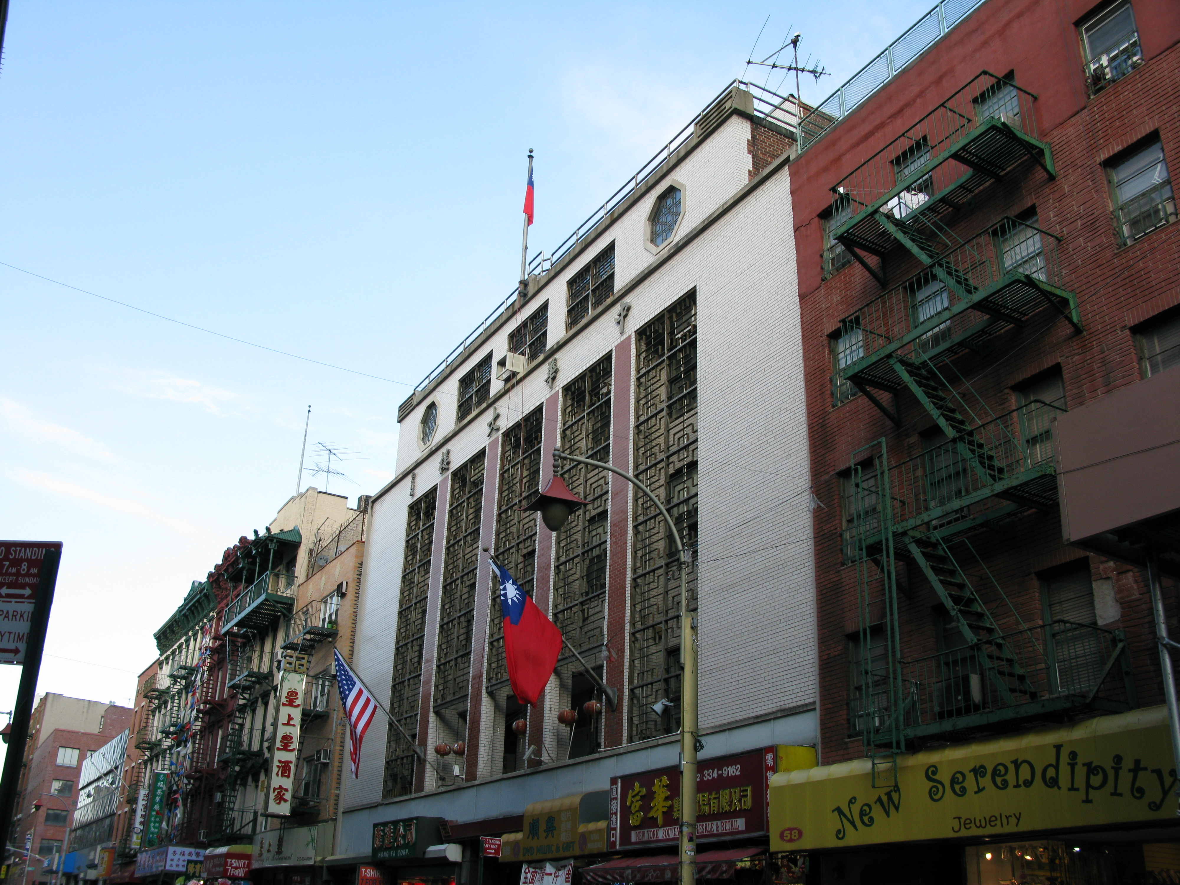 ccbanyc